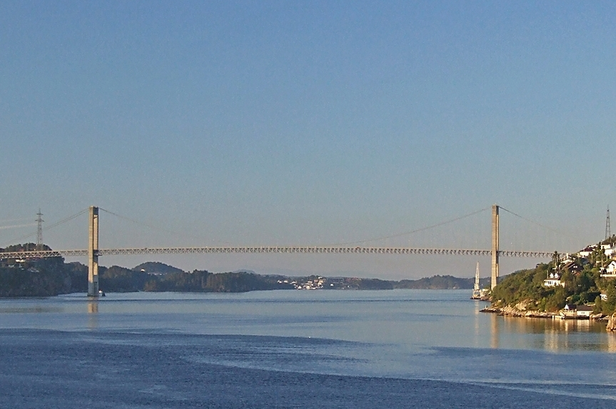 The Sotra Bridge between the mainland and Litlesotra in Hordaland county, near Bergen in Norway. Seen from the north